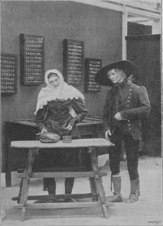 Senior couple from Troubsko village (outside Brno) welcomes guests with bread and salt - a model displayed on Czech & Slavonic Ethnographic Exhibition in Prague in 1895.